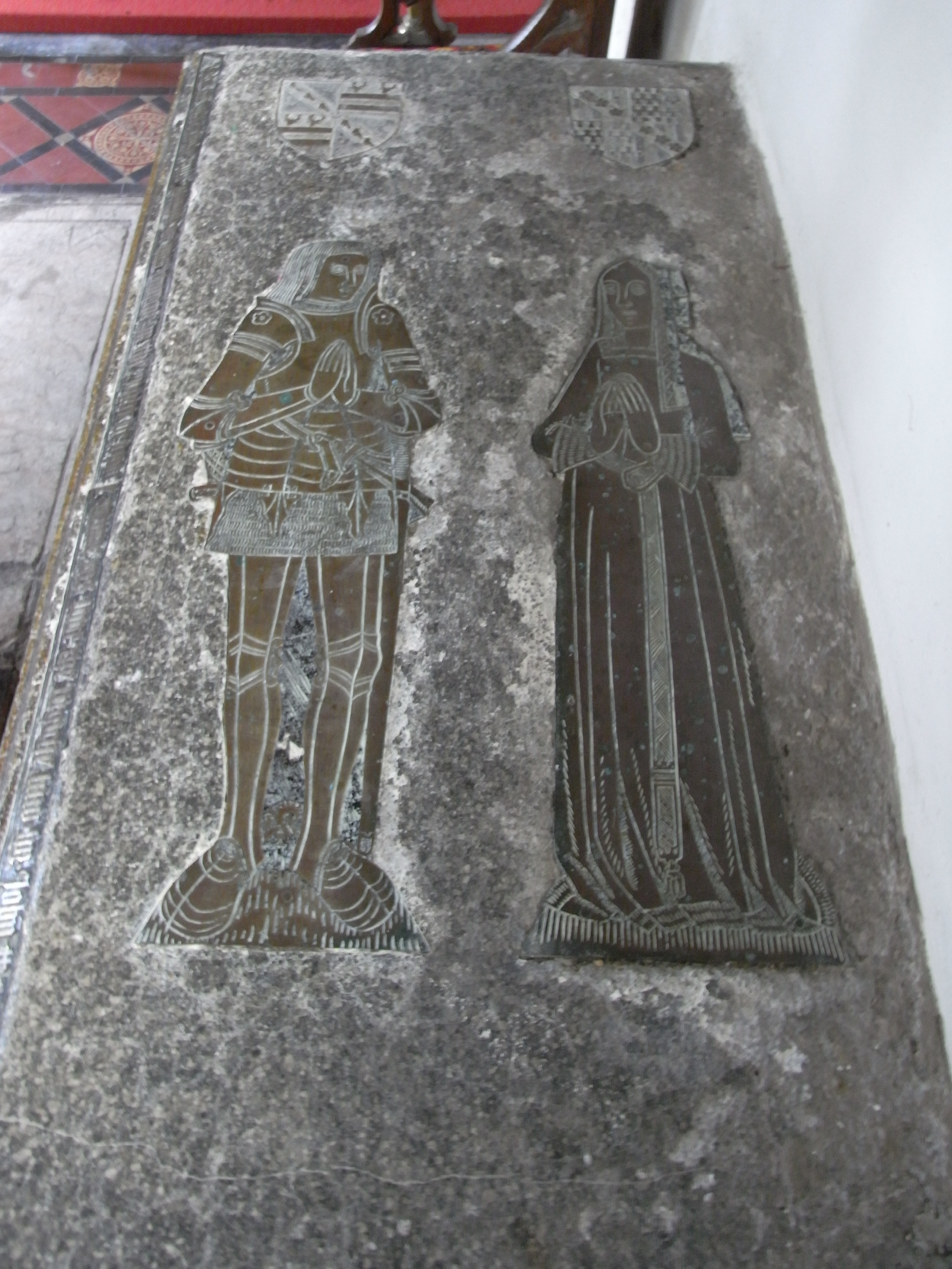 Brasses on top of tomb of Sir John Danvers (d.1514) and Anne Stradling (d.1539), Dauntsey Church, Wiltshire